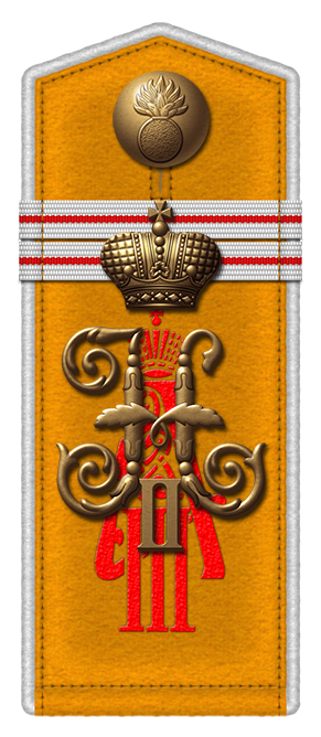 Junior Unteroffizier of Russian Astrakhansky 12th Grenadier Regiment